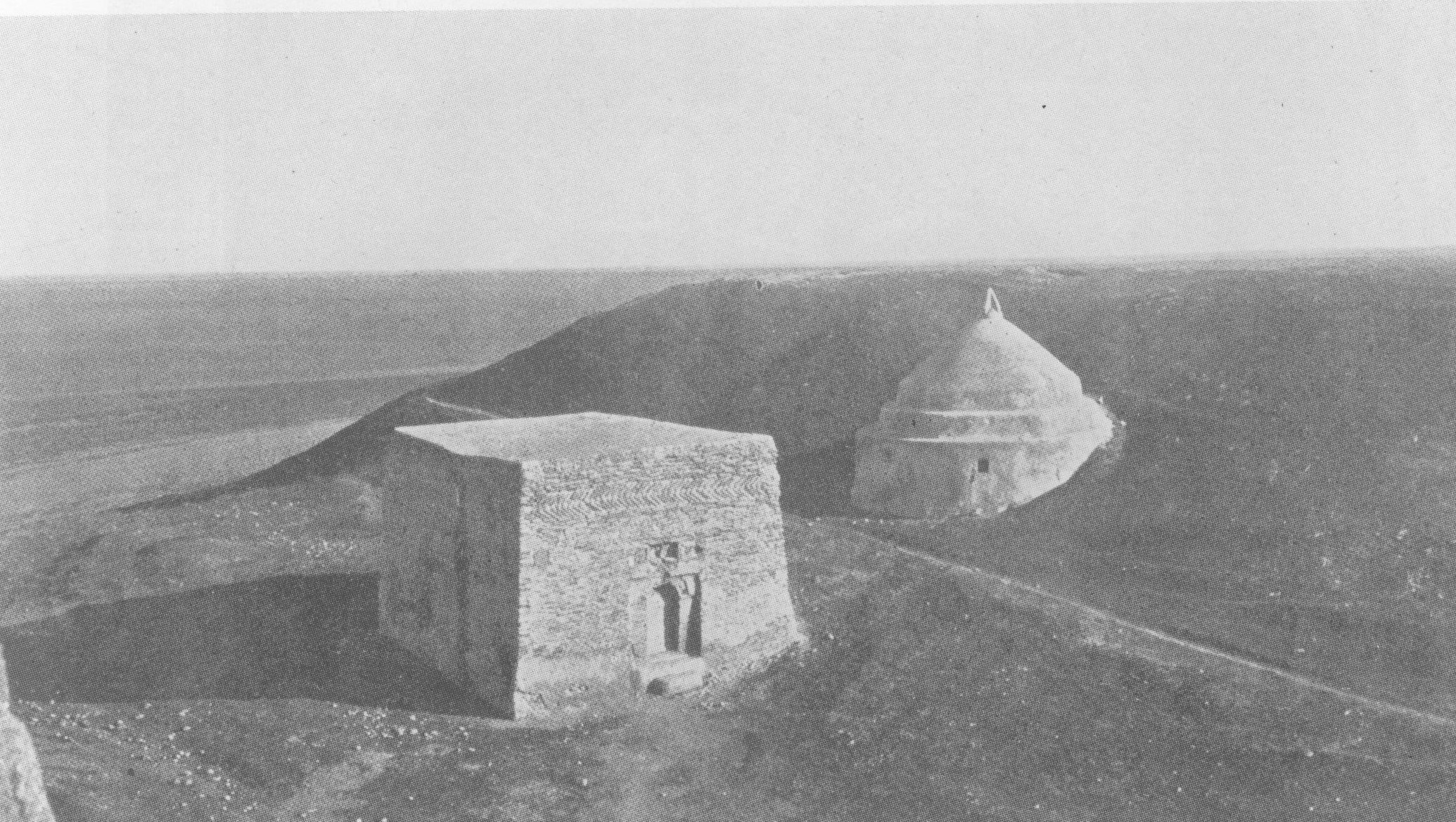 Sanctuary of Khidr-Elias at Mar-Behnam Monastery, Iraq